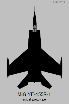 Plan-view silhouette of the Mikoyan-Gurevich Ye-155R-1 (MiG-25 prototype)